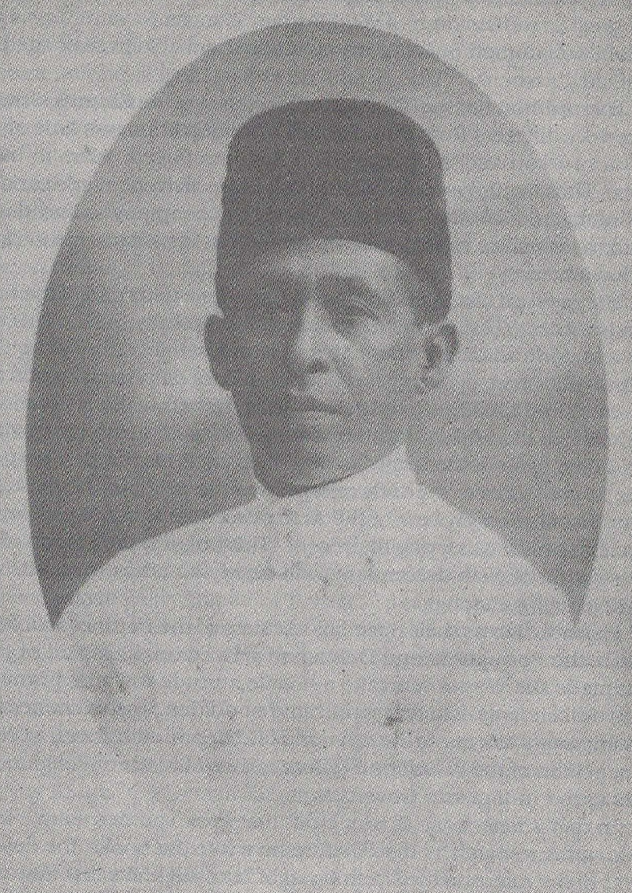 Muhammad Algadri, father of Hamid Algadri